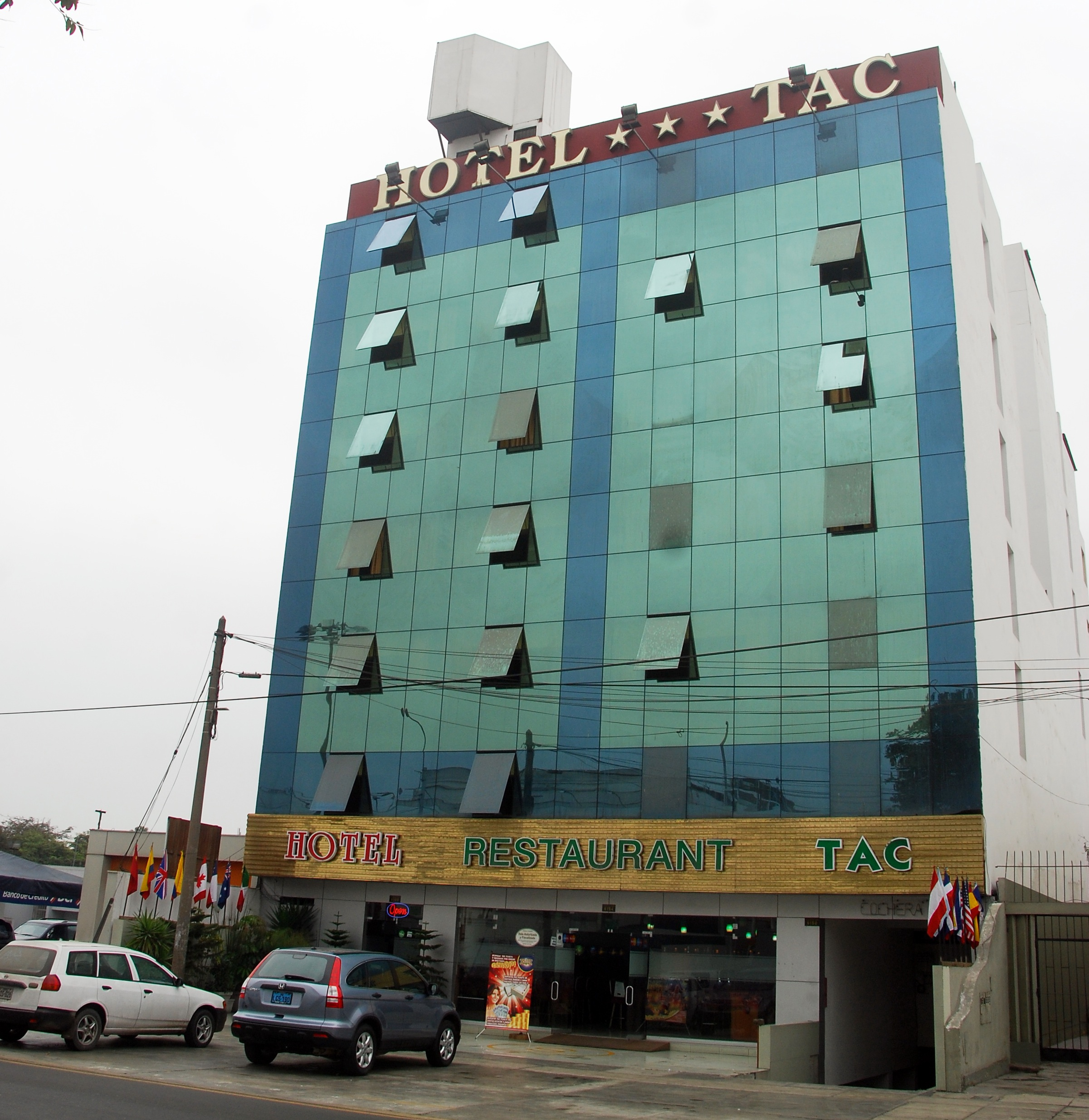 Hotel Tac, S.A.C. in the Miraflores District of Lima, Peru, where Joran van der Sloot stayed in May 2010.